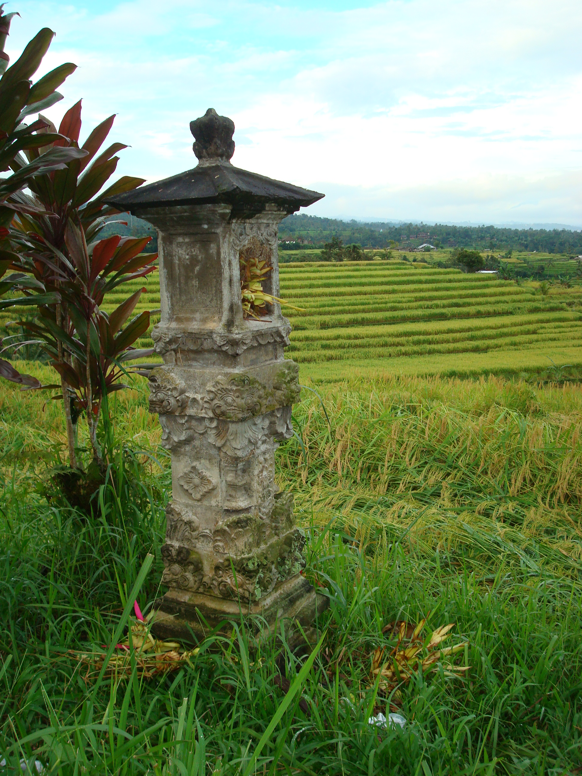 Balinese altar at Rice terraces of Gunung Batukaru. This Subak landscape is a UNESCO World Heritage Site since 2012